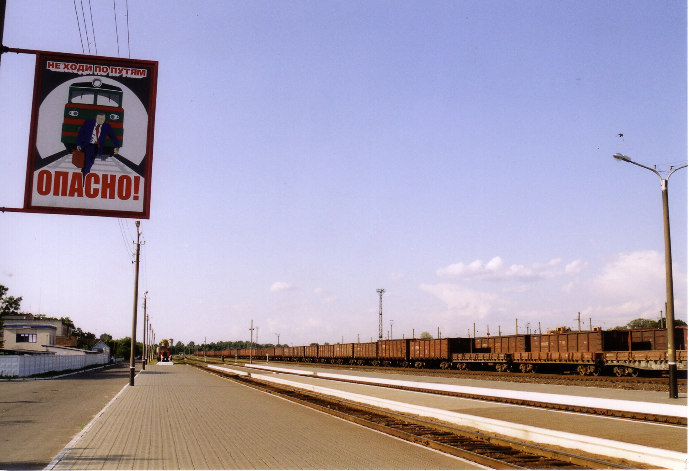 Luninets Station in Belarus